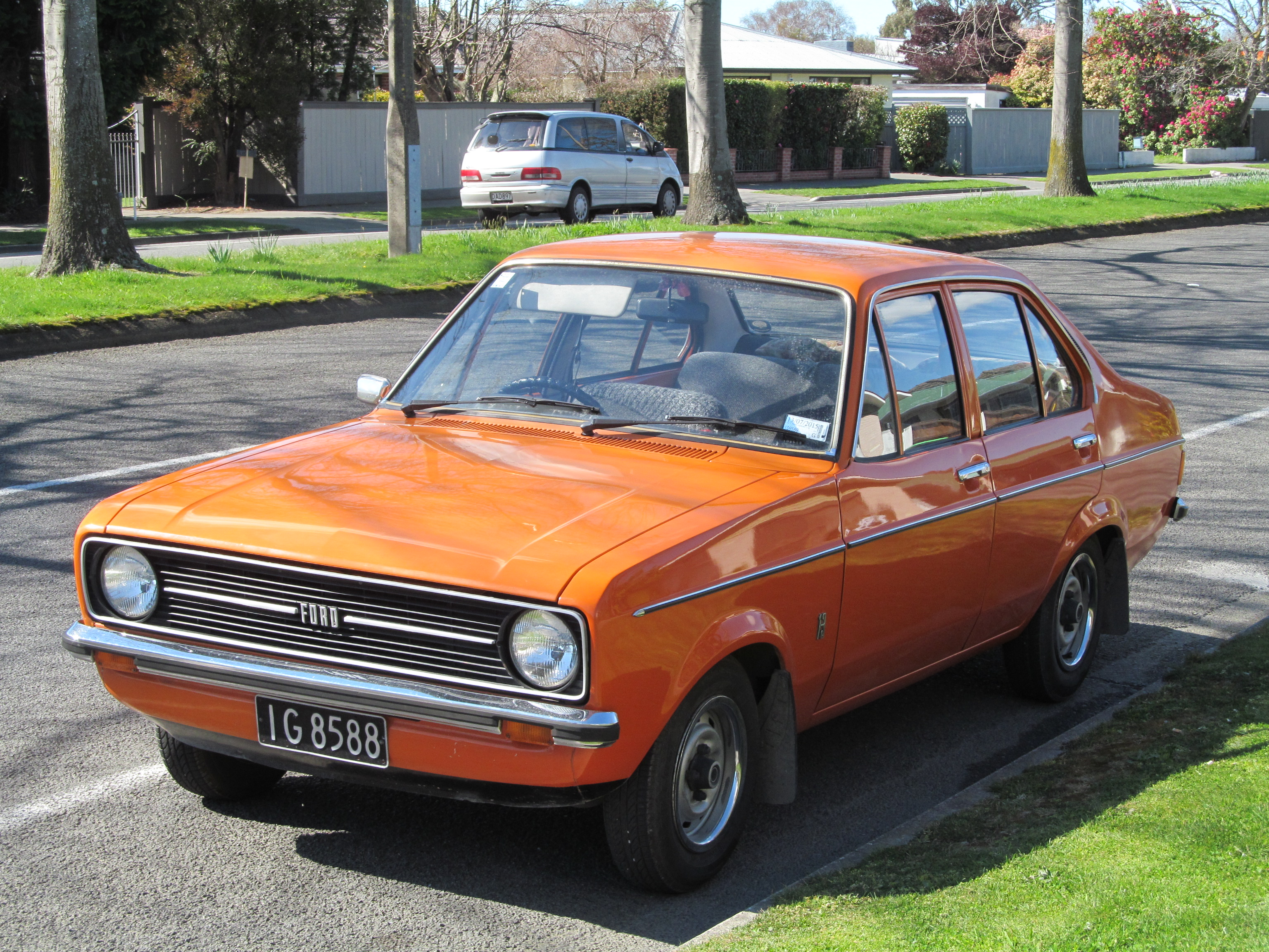 Easily one of the best Escorts I have ever seen - a true credit to the owner.